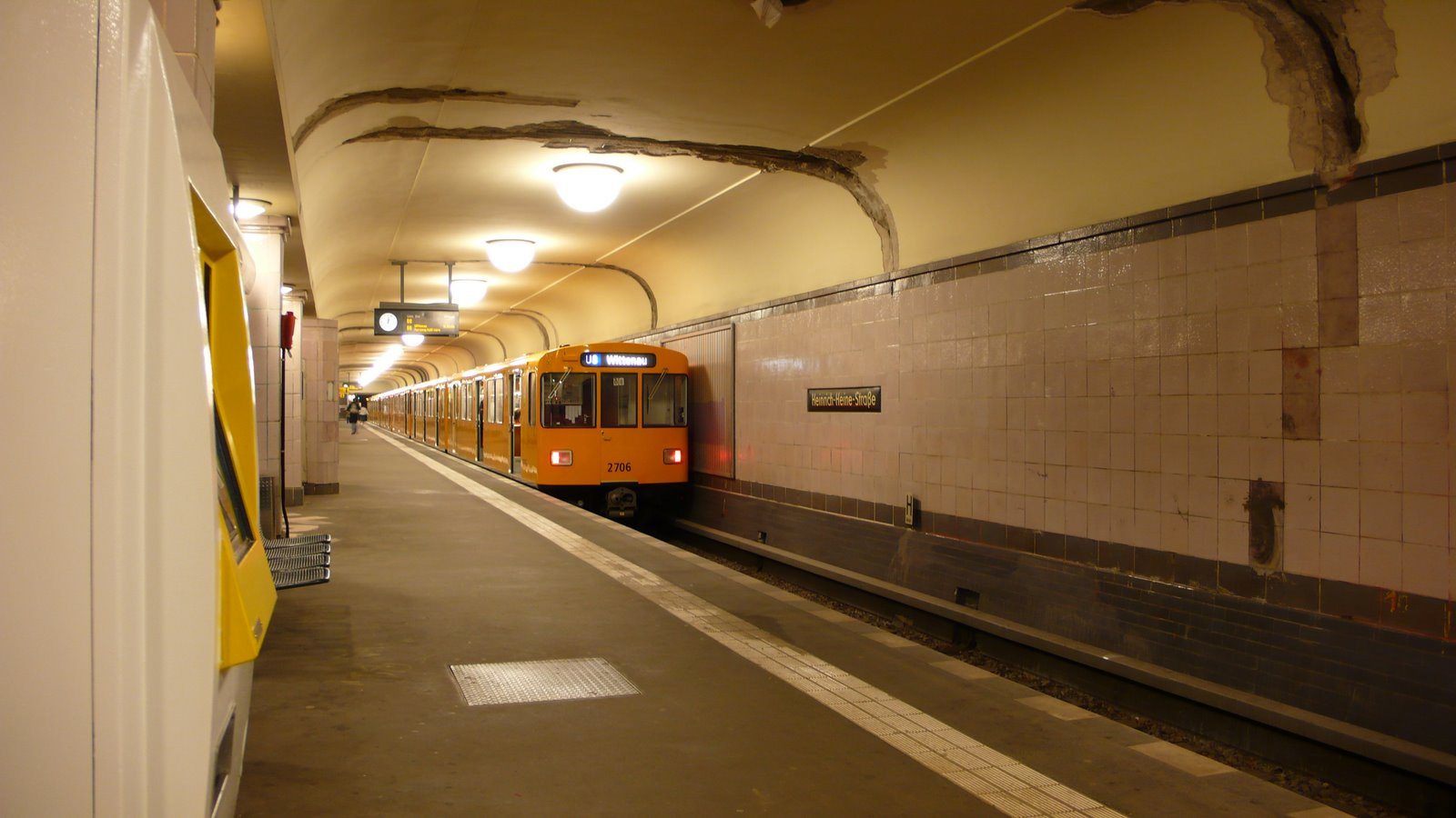 Subway Heine-Str. Berlin